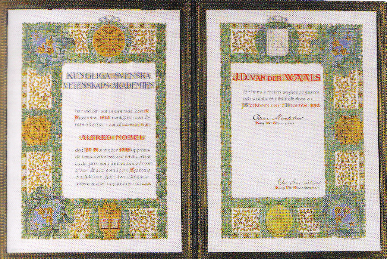 Charter of the Noble Prize in Physics 1910, awarded to Johannes Diderik van der Waals